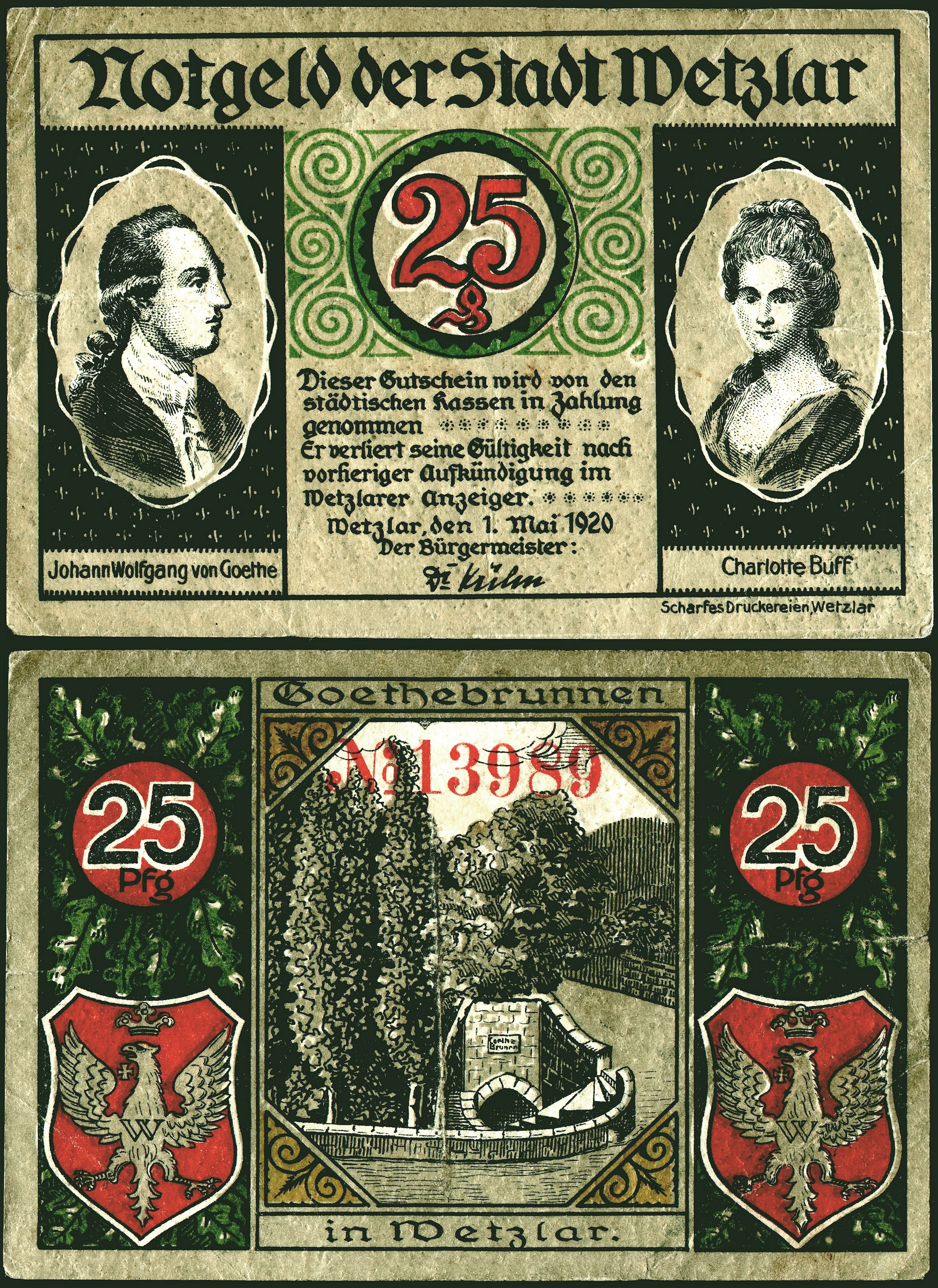 25 Pfennig-Notgeld banknote issued by the city of Wetzlar, dated May 1, 1920. Size: 97 mm x 68 mm.